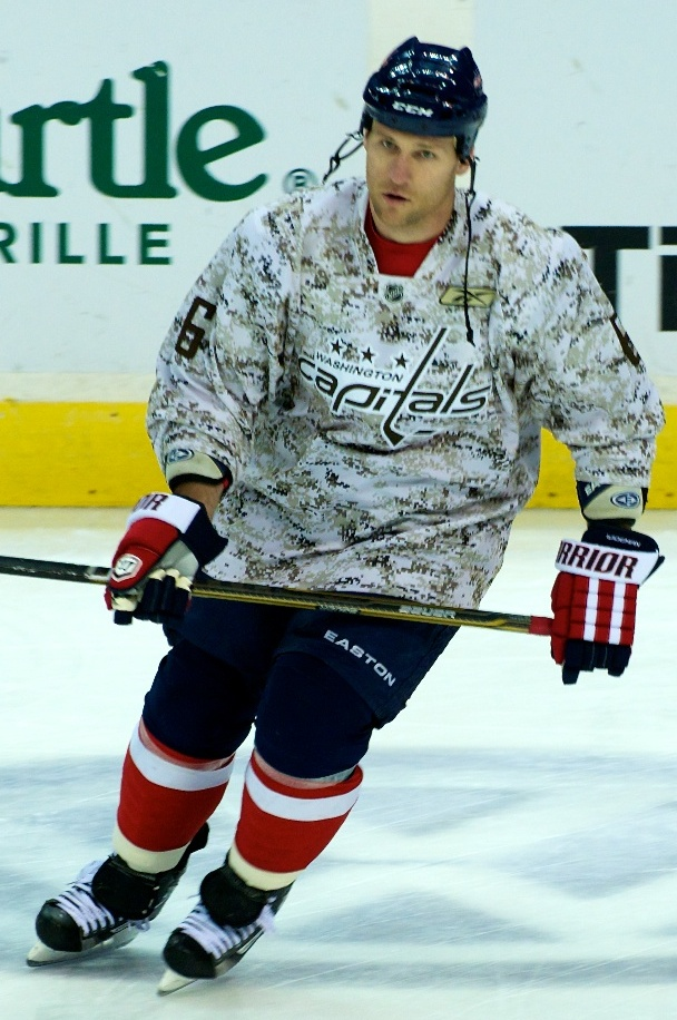 Dennis_Wideman of the Washington Capitals